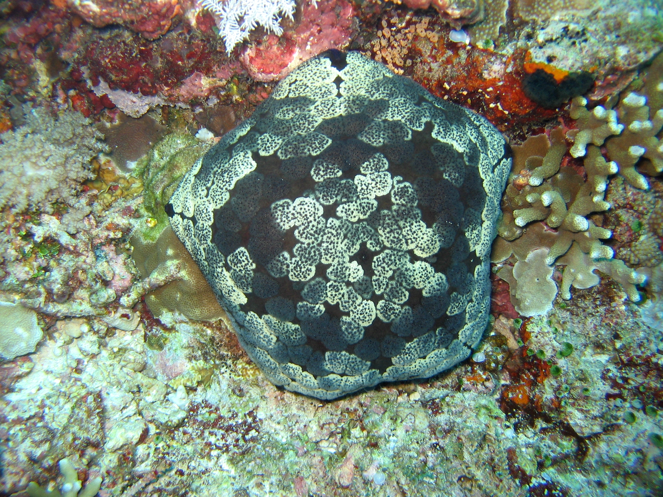 A cushion star (Culcita novaeguineae). Philippine Islands, Occidental Mindoro, Apo Reef.